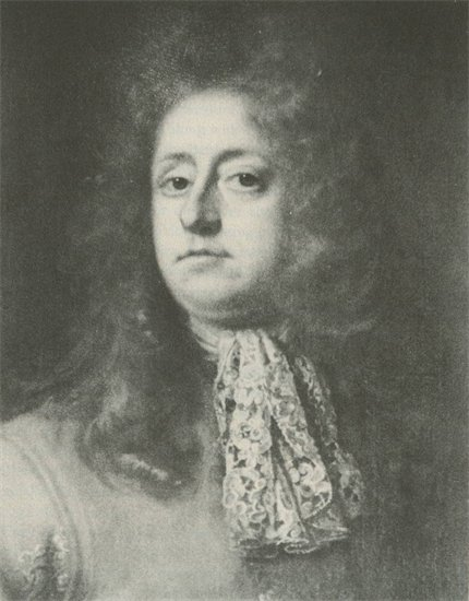 Portrait by John Closterman of Arthur Herbert, 1st Earl of Torrington, British admiral and politician.